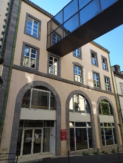 Heritage Library of Clermont Auvergne Métropole in Clermont-Ferrand (France)